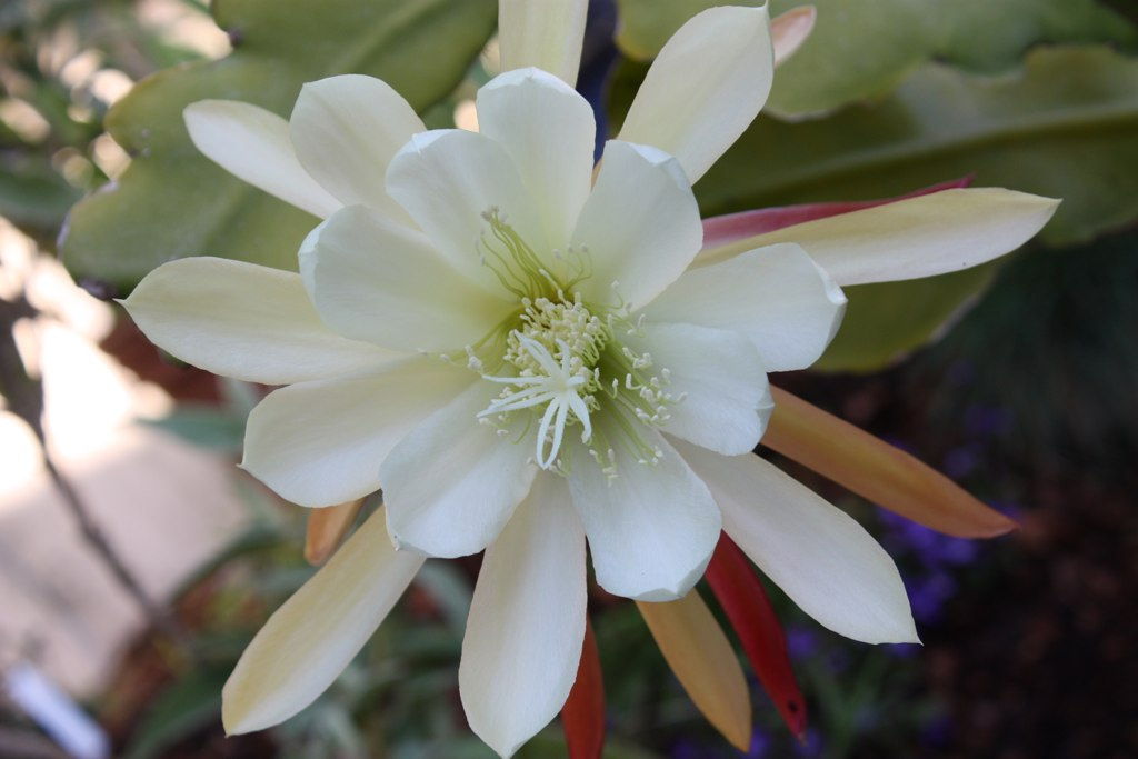 Epiphyllum crenatum 'Chichicastenango'